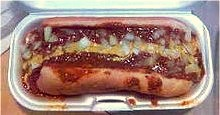 Photograph of a Coney Island hot dog.